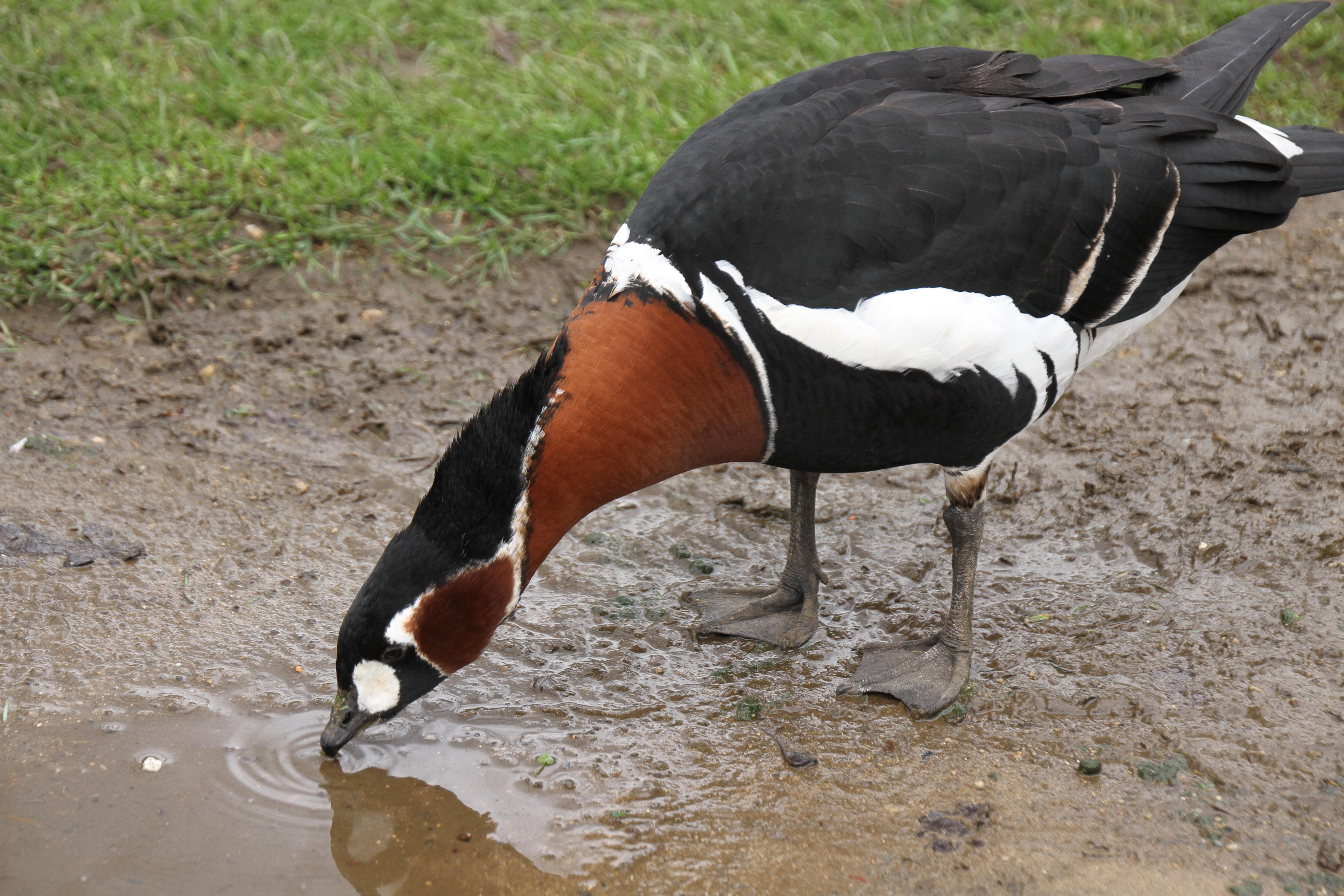 A Red-breasted Goose at Beale Park, Berkshire, England.